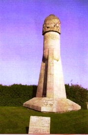 Monument on the Chemin des Dames